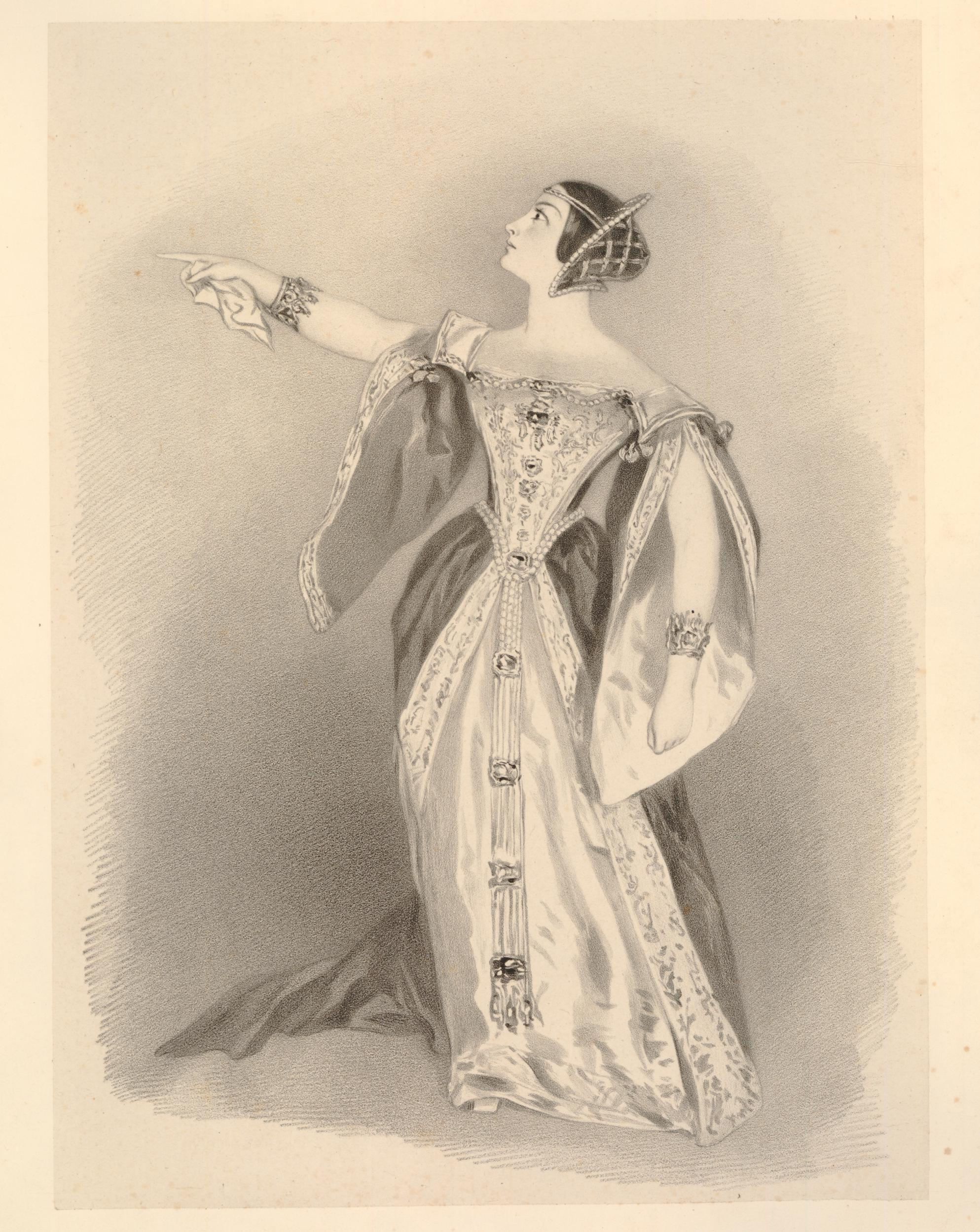 Portrait of Giulia Grisi, full-length, in profile to the left, pointing imperiously to the left, dressed as Anna Bolena in an embroidered and bejewelled Tudor dress with a headress over her hair, a facsimile of her signature below; proof before letters; after Chalon. Lithograph on chine collé